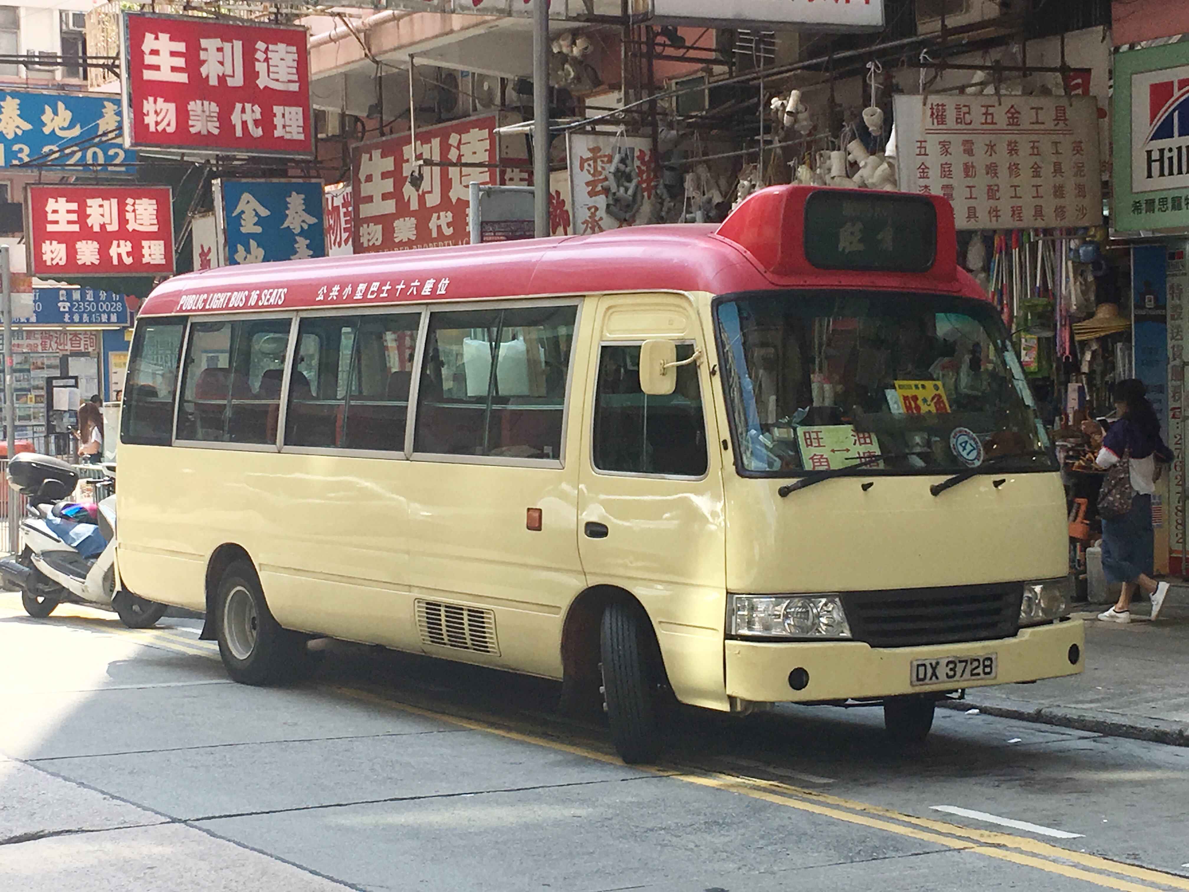 中文（香港）: This photo is taken in To Kwa Wan.